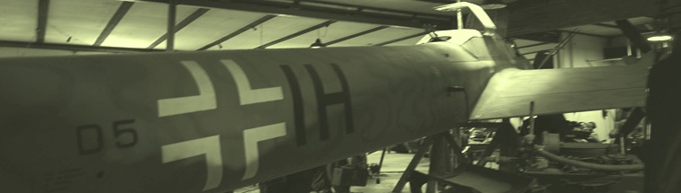 Displayed by a private group in the town of Gilleleje North of Copenhagen